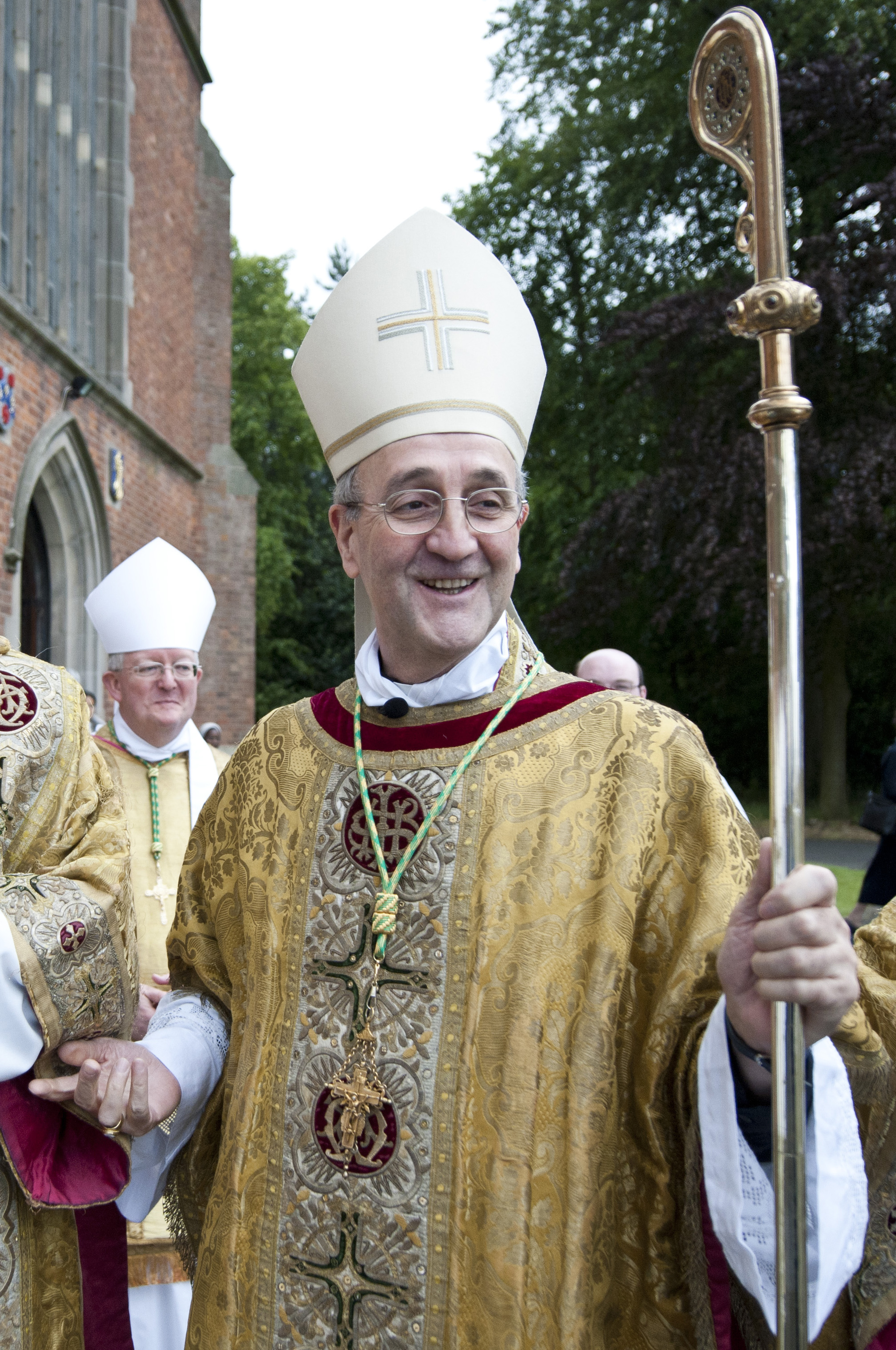 Archbishop Antonio Mennini during Invocation 2011, 17-19 June, Oscott College